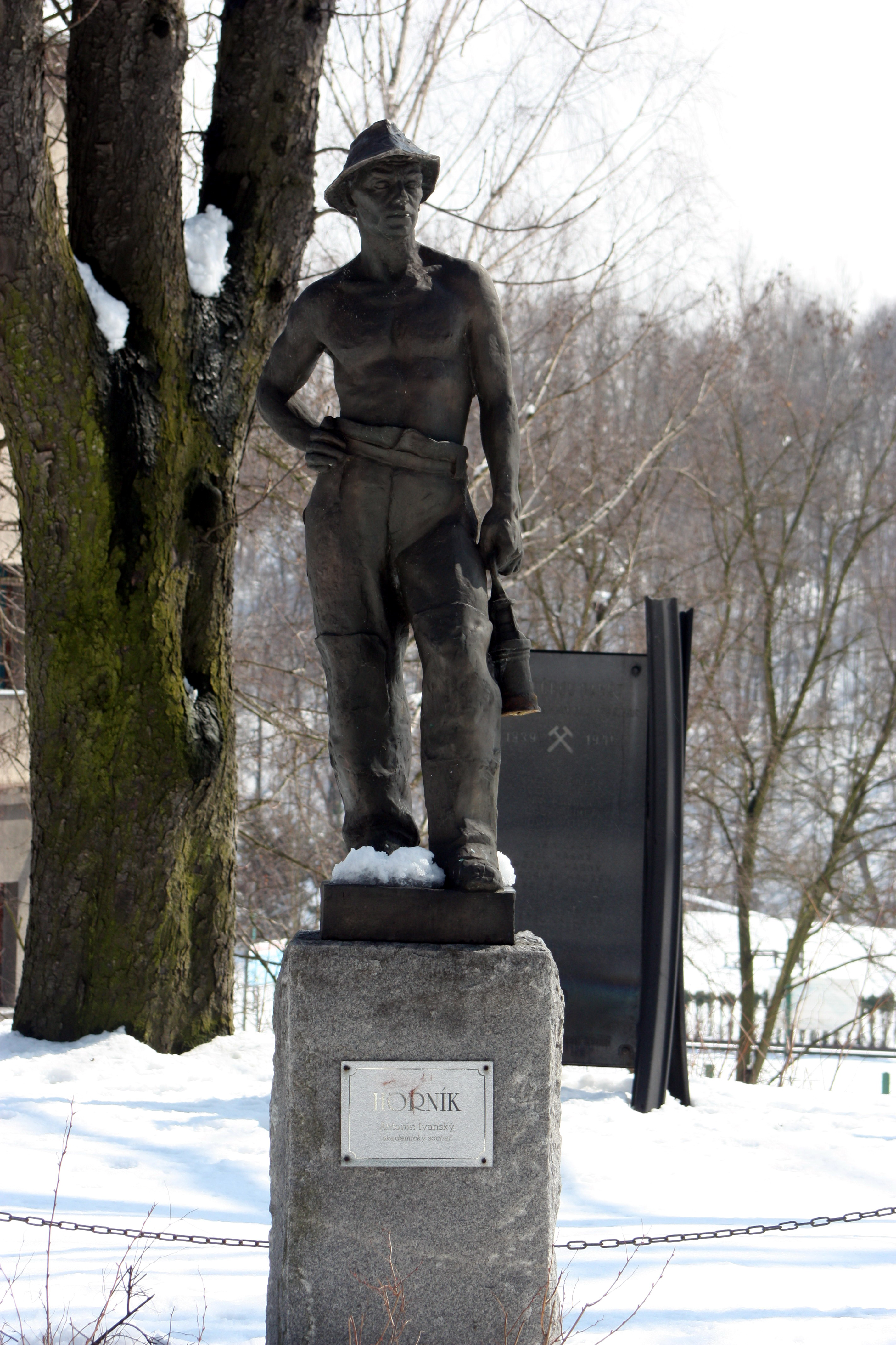 Statue of miner in Miners muzeum in Ostrava, Czechia.